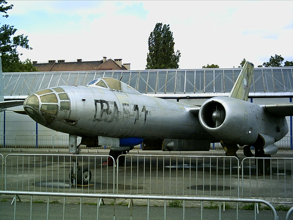 Ilyushin Il-28RTR, Kbely museum, Prague